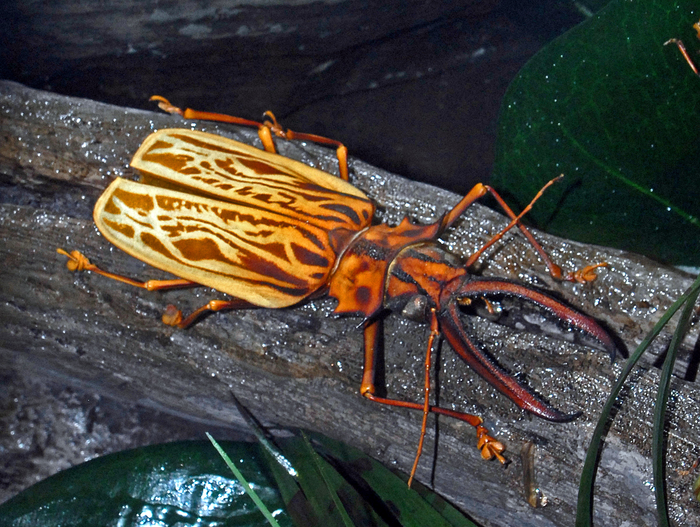 Macrodontia cervicornis. Mounted specimen at the Museo Civico di Storia Naturale di Milano